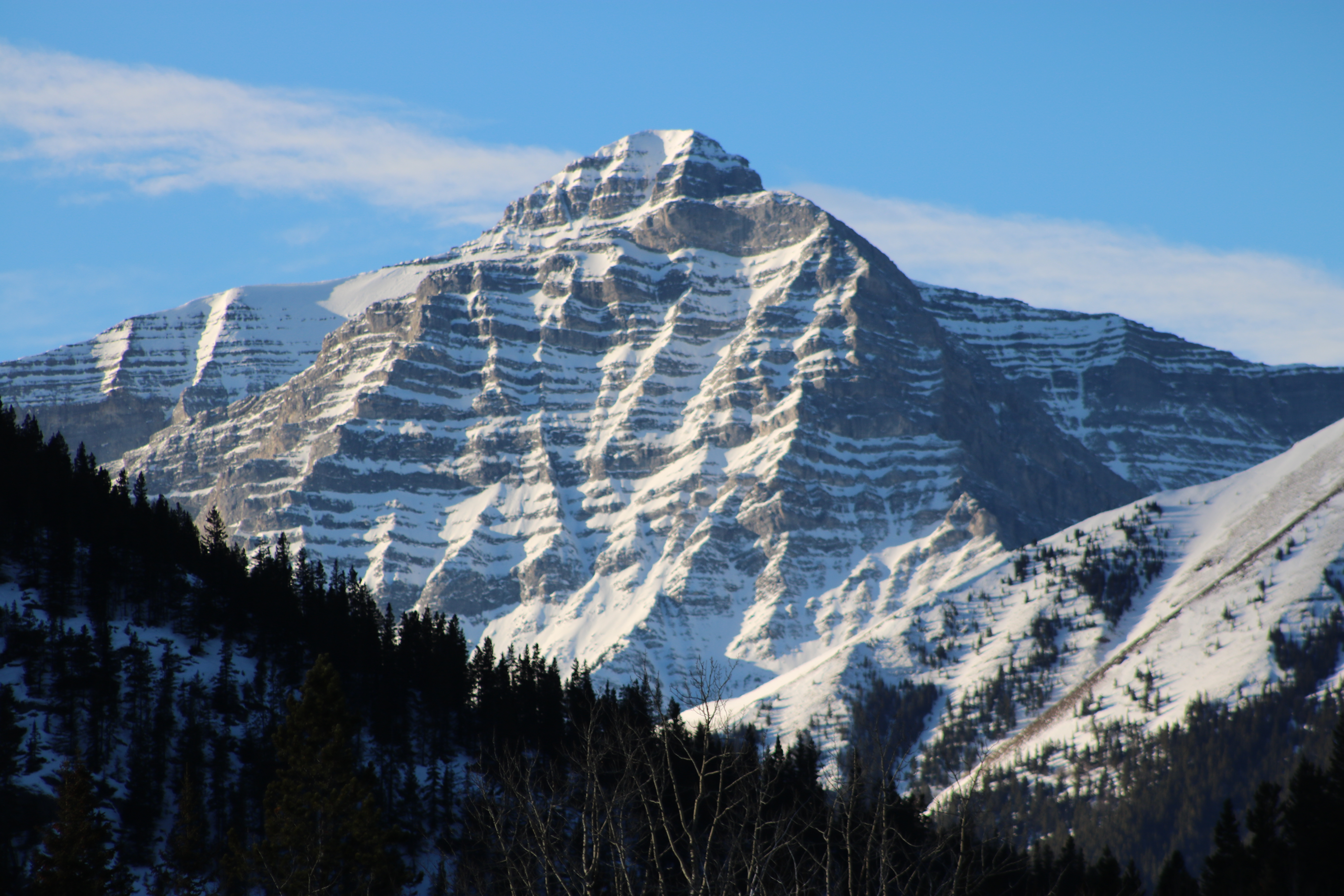 A couple of shots from a recent trip to the mountains.